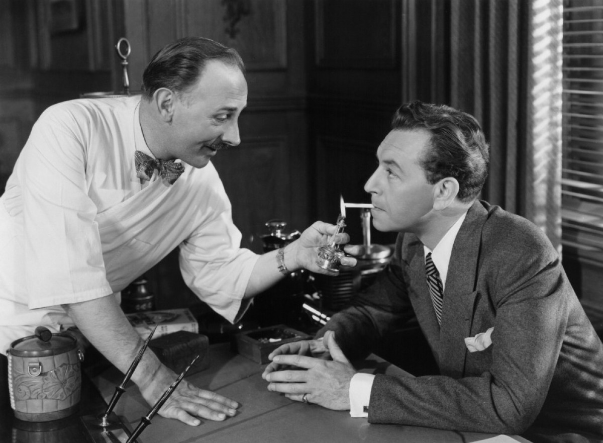 John Qualen (left) & Paul Henreid in Hollow Triumph (aka The Scar, UK title) - cropped screenshot